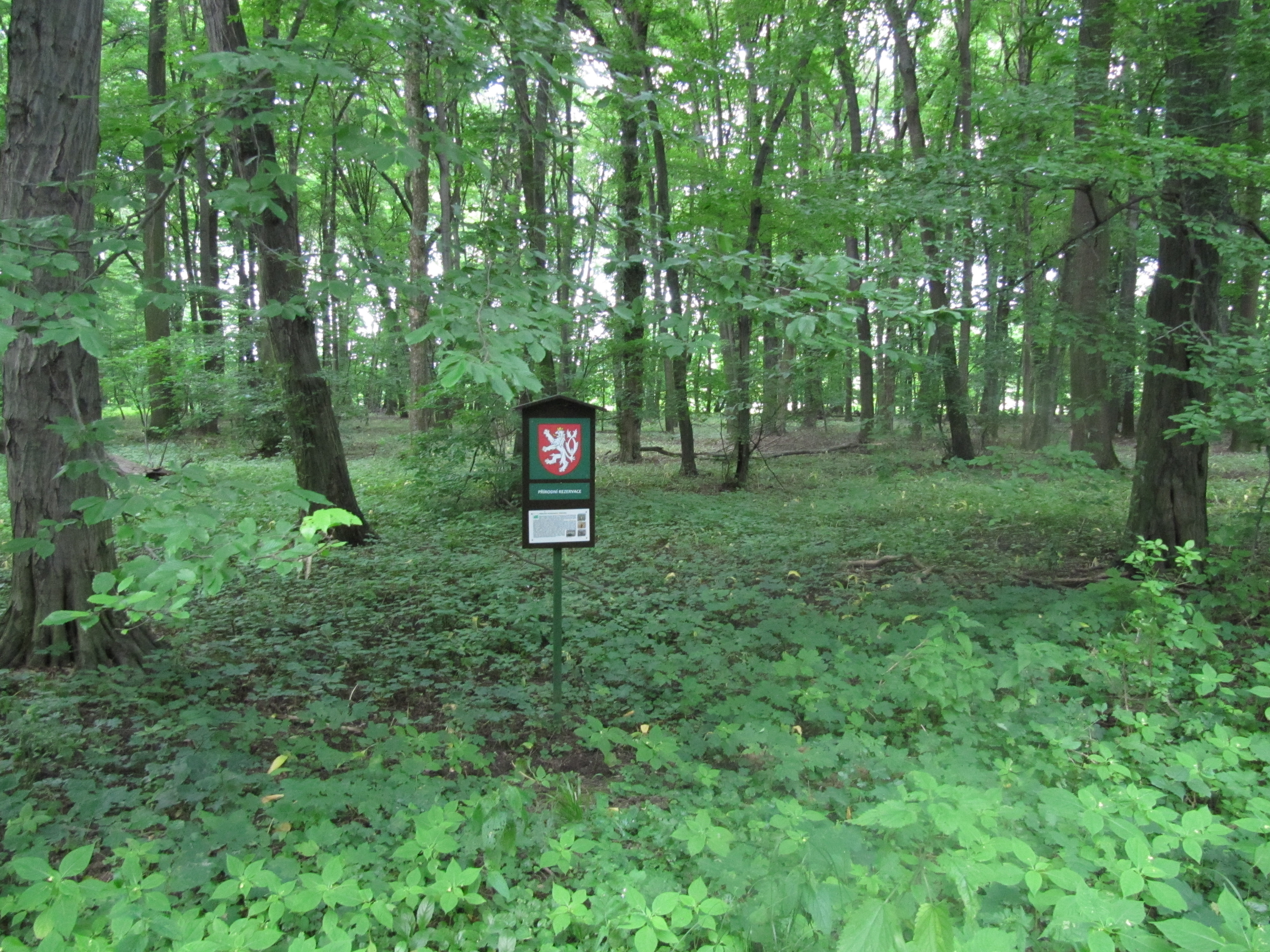 Kněžpole in Uherské Hradiště District, Czech Republic. Trnovec (nature reserve).